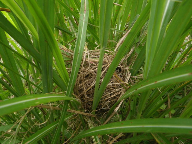 Micromys minutus 's Nest